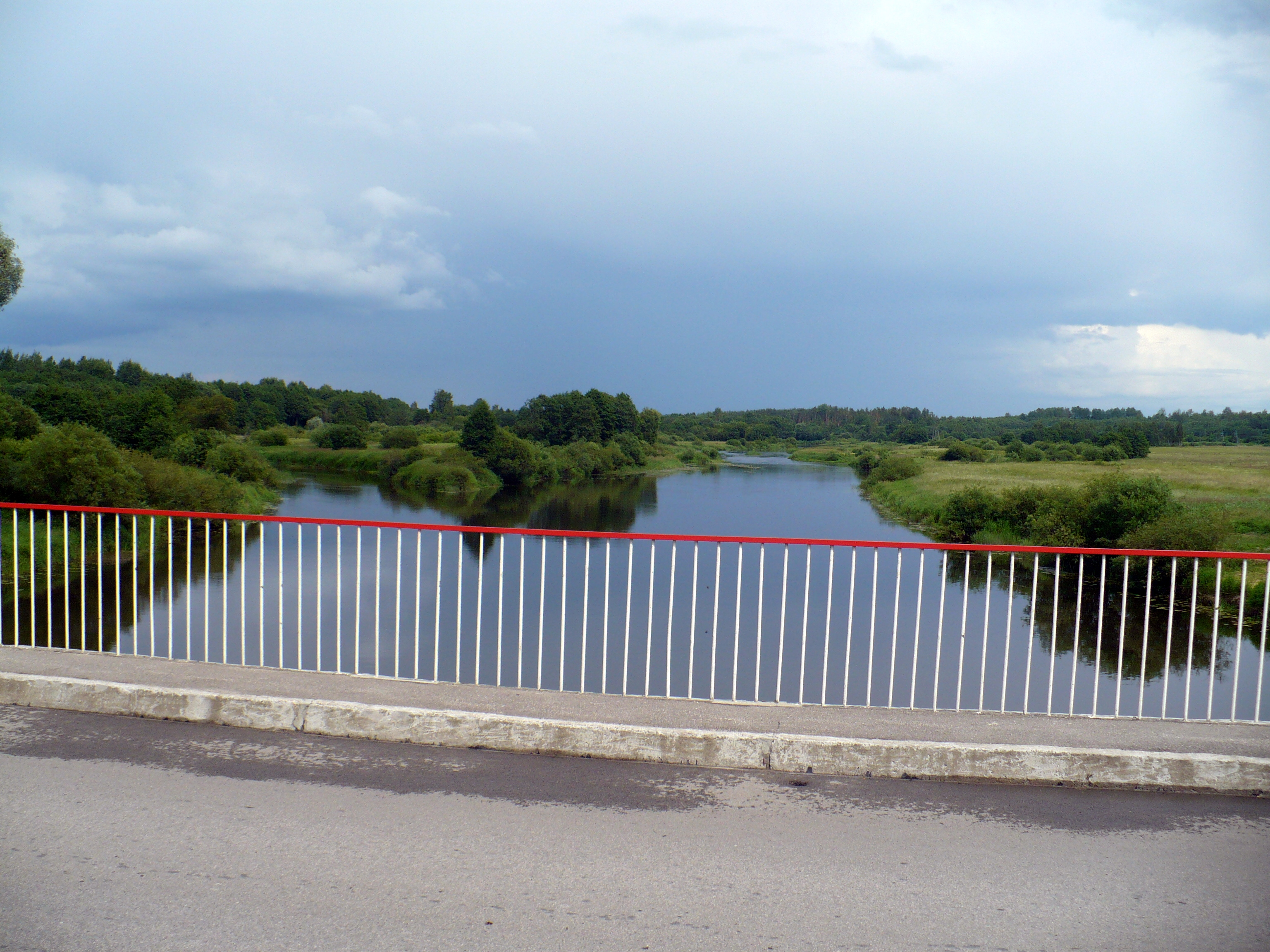 View from Aiviekste bridge to east. June, 2008